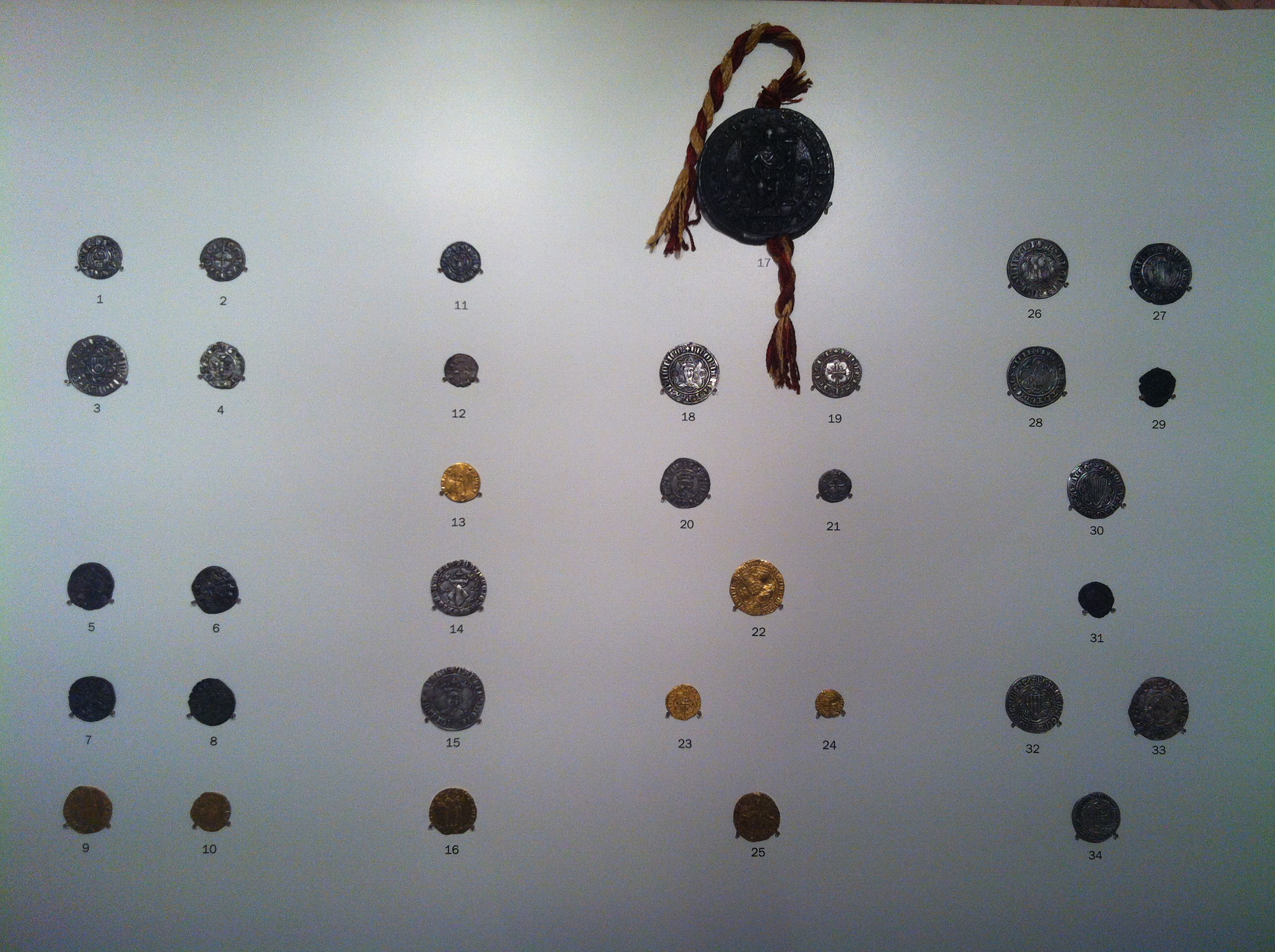 Numismatic collection conserved at MNAC in Barcelona.The collection of the Numismatic Cabinet of Catalonia, open to consultation by researchers, is formed by over 135,000 pieces. The principal numismatic series are represented here, with coins dating from the 6th century BC to the present day, as well as medals, valuable paper, tokens, monetary weights, scales, dies, decorations and insignia. Of all this wealth of material, the most important and emblematic series are without doubt the Catalan ones. They include extremely rare pieces, such as the first silver coins ever struck in the Iberian Peninsula by the Greeks of Emporion, the issues of the Catalan counties, those of the 17th-century Reapers’ War, those of the Napoleonic invasion and the bank notes issued by local councils in Catalonia during the Civil War of 1936-1939